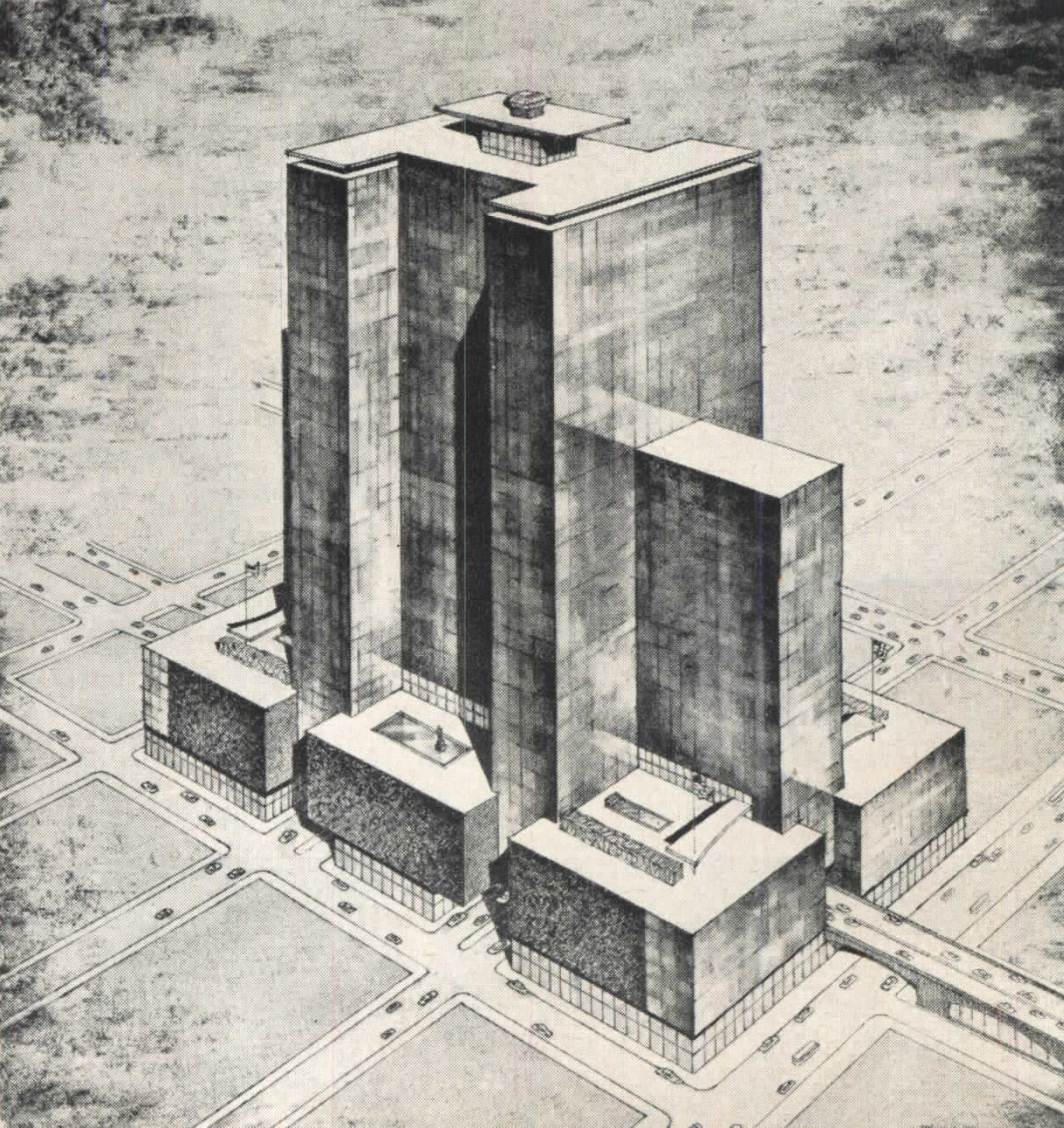 A proposed replacement for Grand Central Terminal, drawn by its own lead architect about 40 years later.Architectural Record description: "Rendering of Fellheimer and Wagner proposal for scheme to replace existing terminal building (completed in 1913) looking east across Vanderbilt Avenue, with Forty-third and Forty-fourth streets in left foreground. Setback roofs are envisioned as roof gardens adjoining restaurants and stores on adjacent tower floor. Roof would provide helicopter landing field"